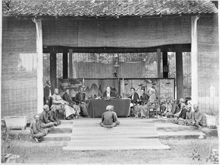 Session of the 'Landraad', a law court for indigenous affairs, in Pati presided by the Resident P.W.A. van Spall, Central-Java